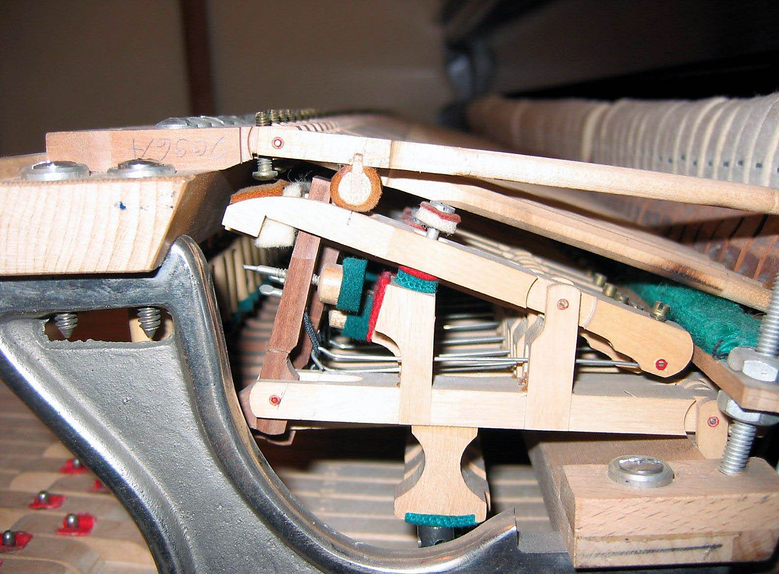 English mechanism of piano.